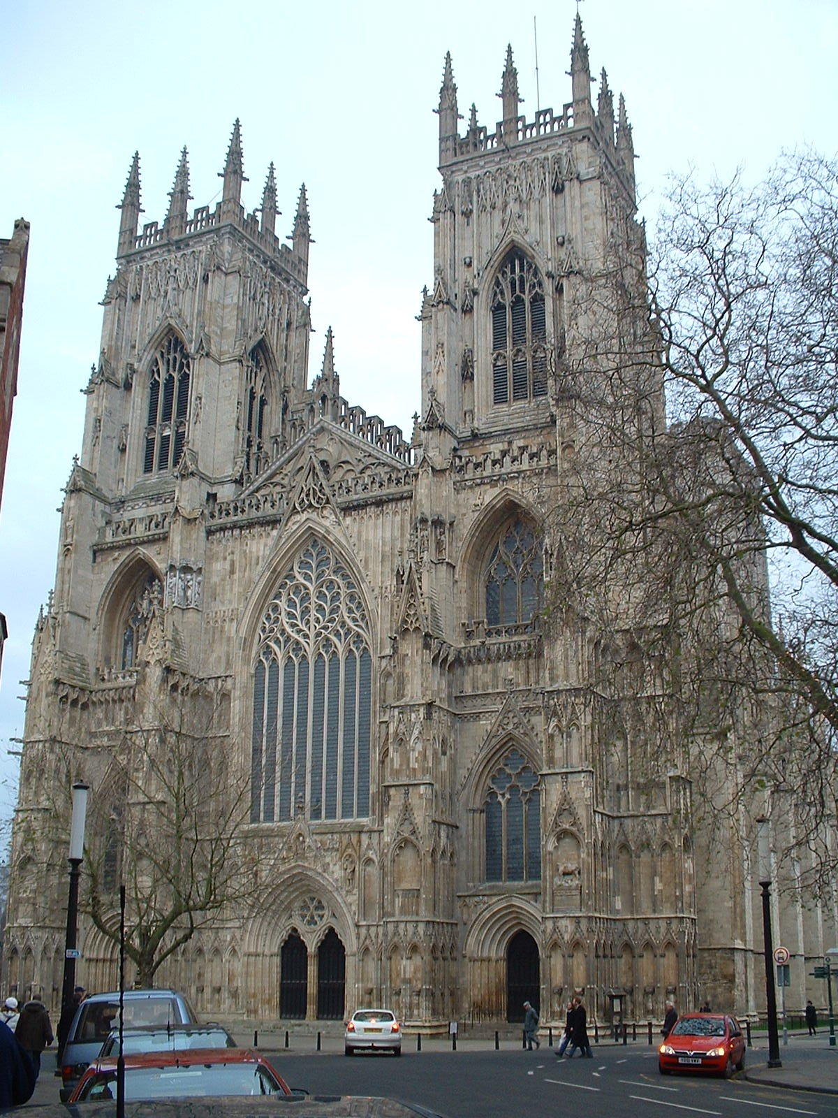 The western facing of York Minster, including the two west towers.